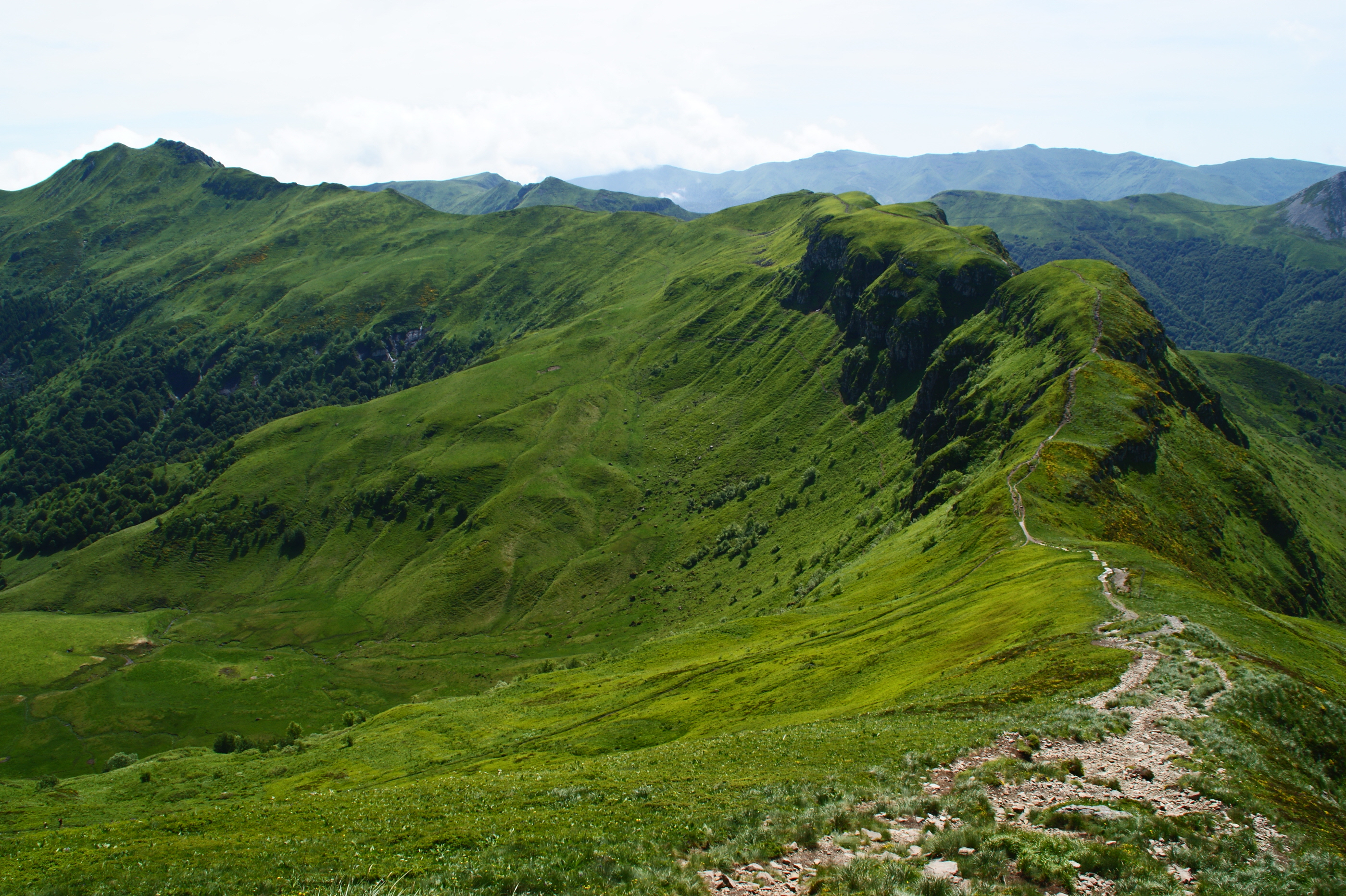 View along the Breche de Roland taken from the col below Puy May in the Monts Cantal in France.